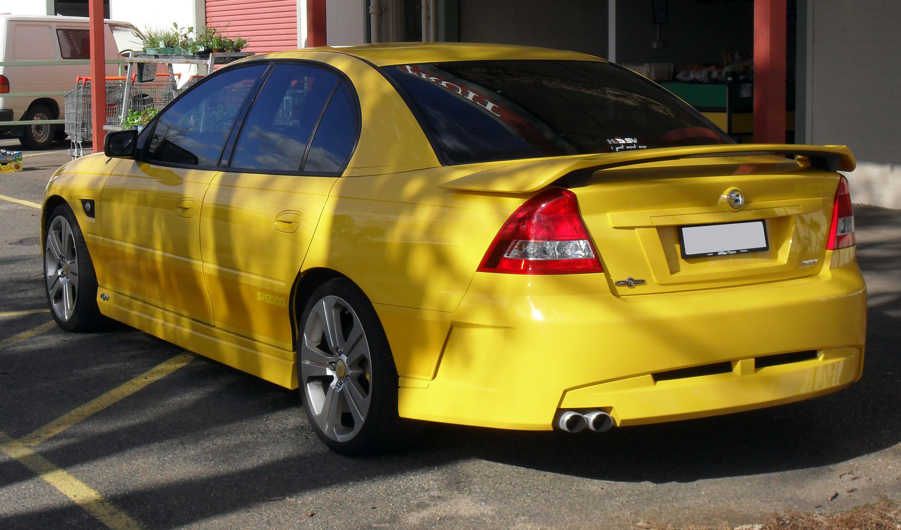 2005 HSV SV6000 (Z Series) sedan photographed in New South Wales, Australia.